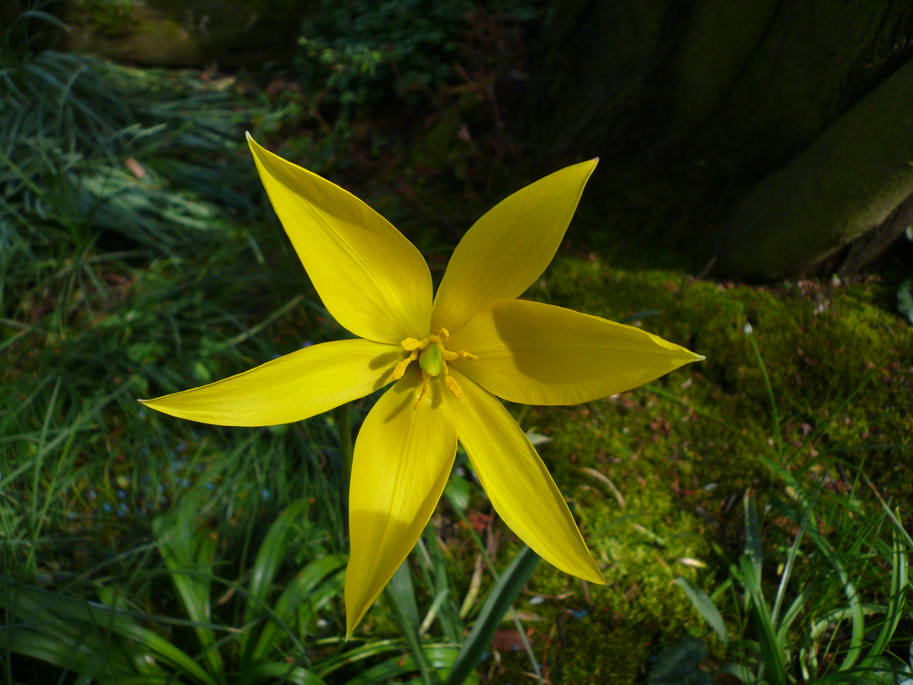 Tulipa sylvestris (close-up)